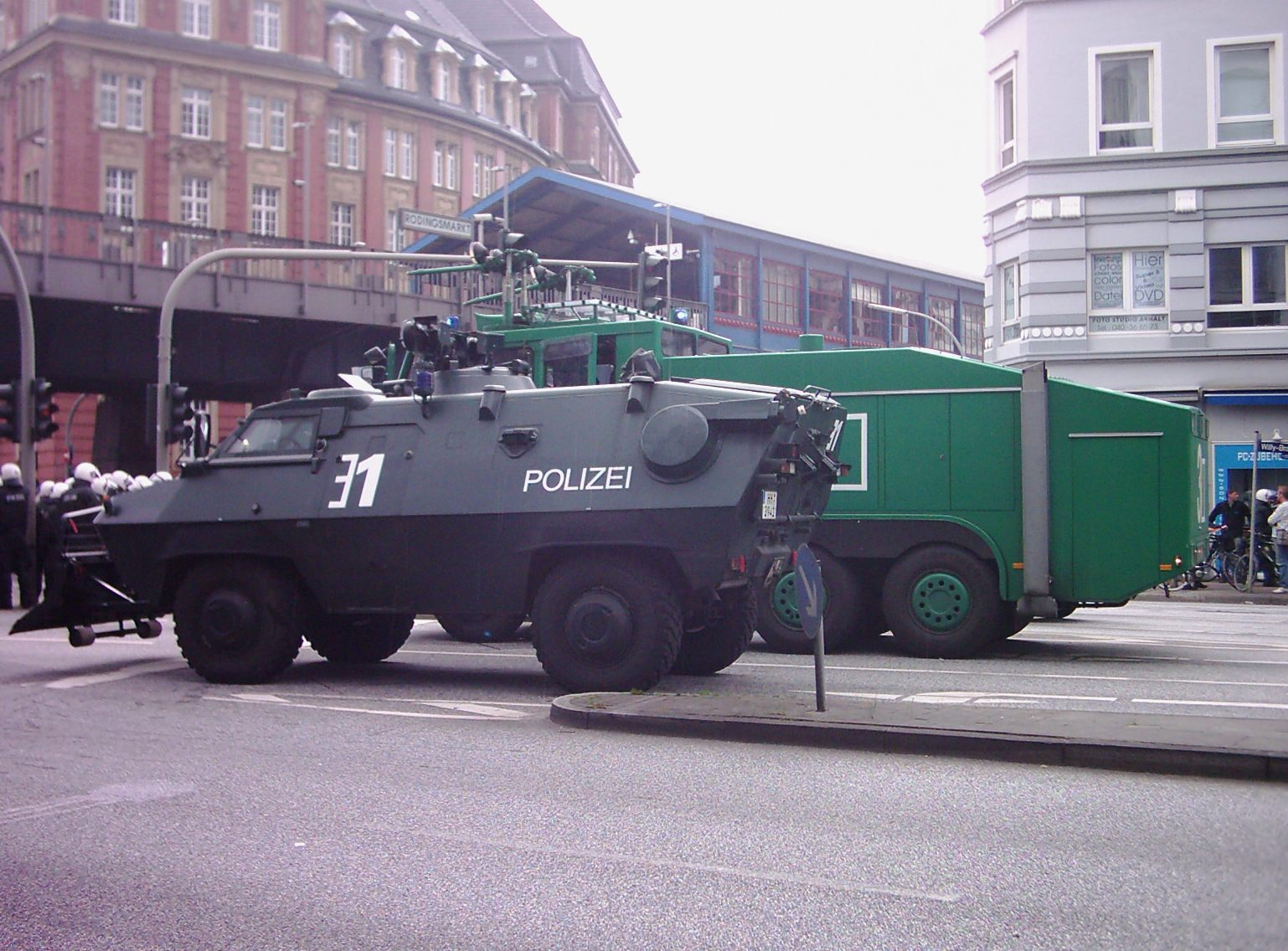 Hamburg, Germany: Demonstration on the occasion of the ASEM-Meeting on May 28, 2007 in Hamburg.